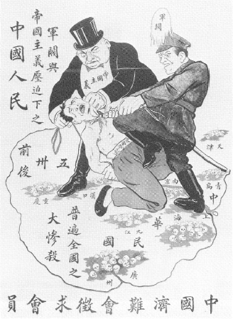 A Chinese nationalist party propaganda poster depicting a foreign imperialist and a local warlord torturing a Chinese patriot in the aftermath of the May 30th Movement in China.